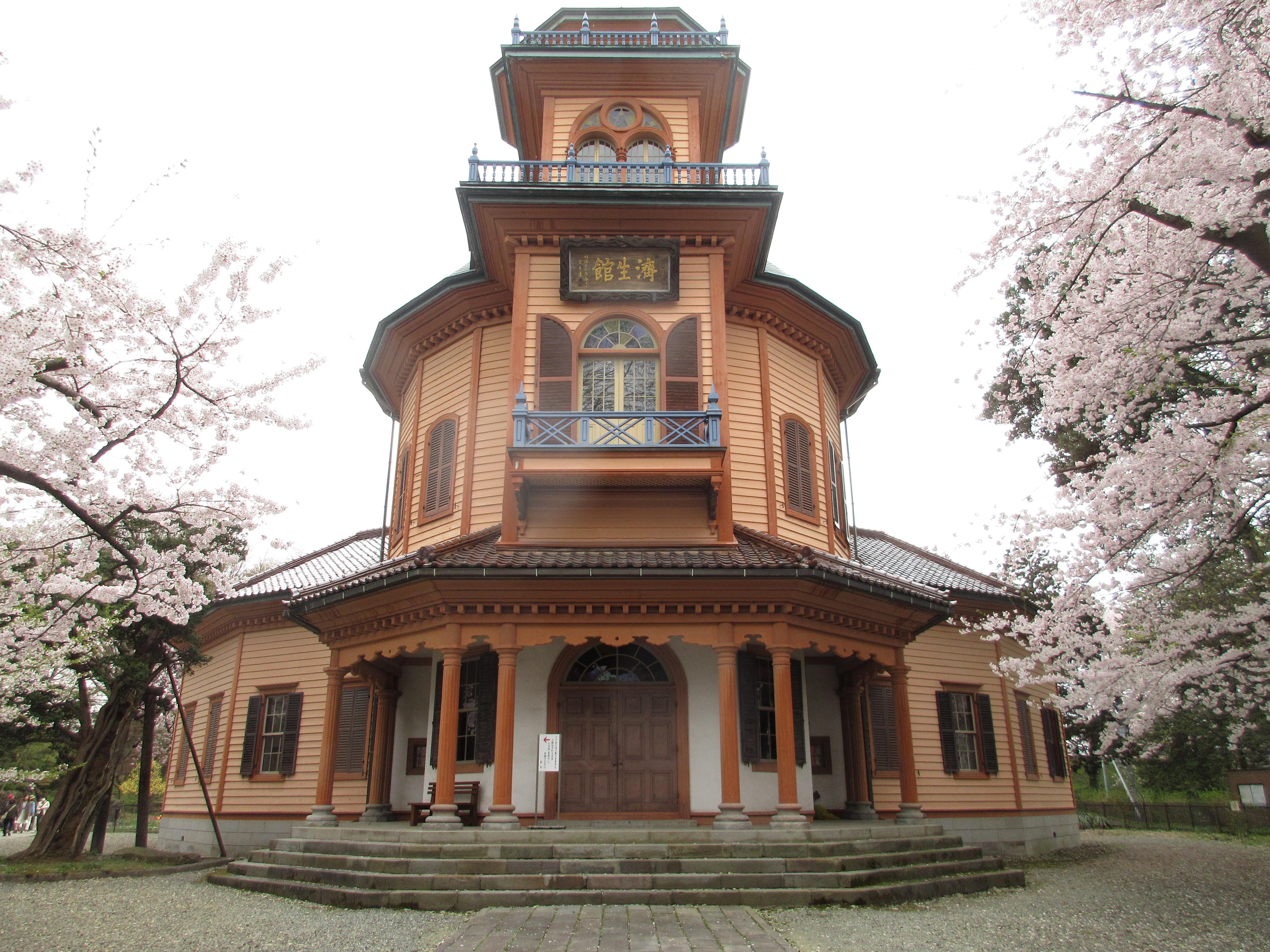 Yamagata-shi kyoudokan in Yamagata city. Former Saiseikan hospital main building.